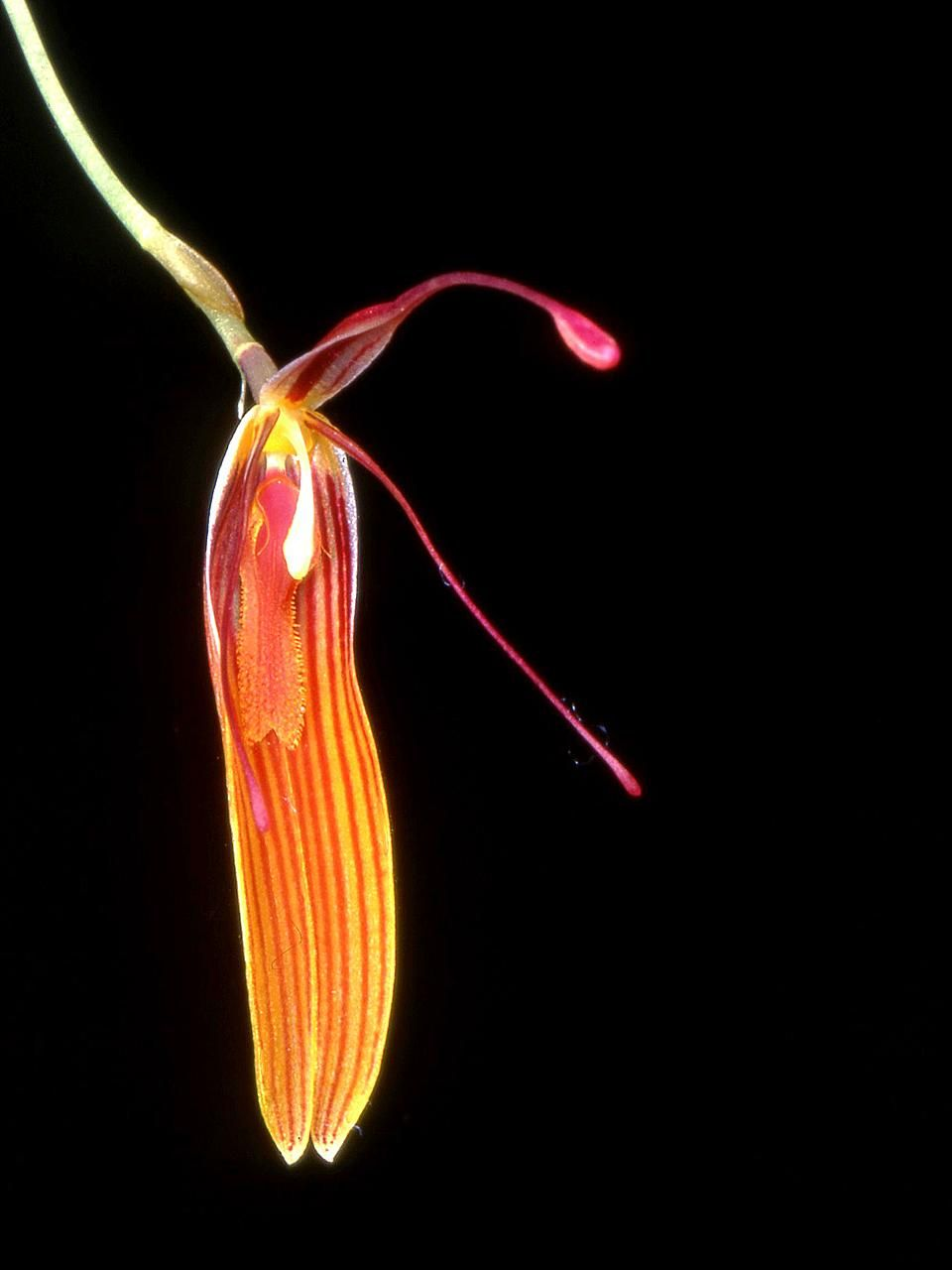 Restrepia nittiorhyncha - flower